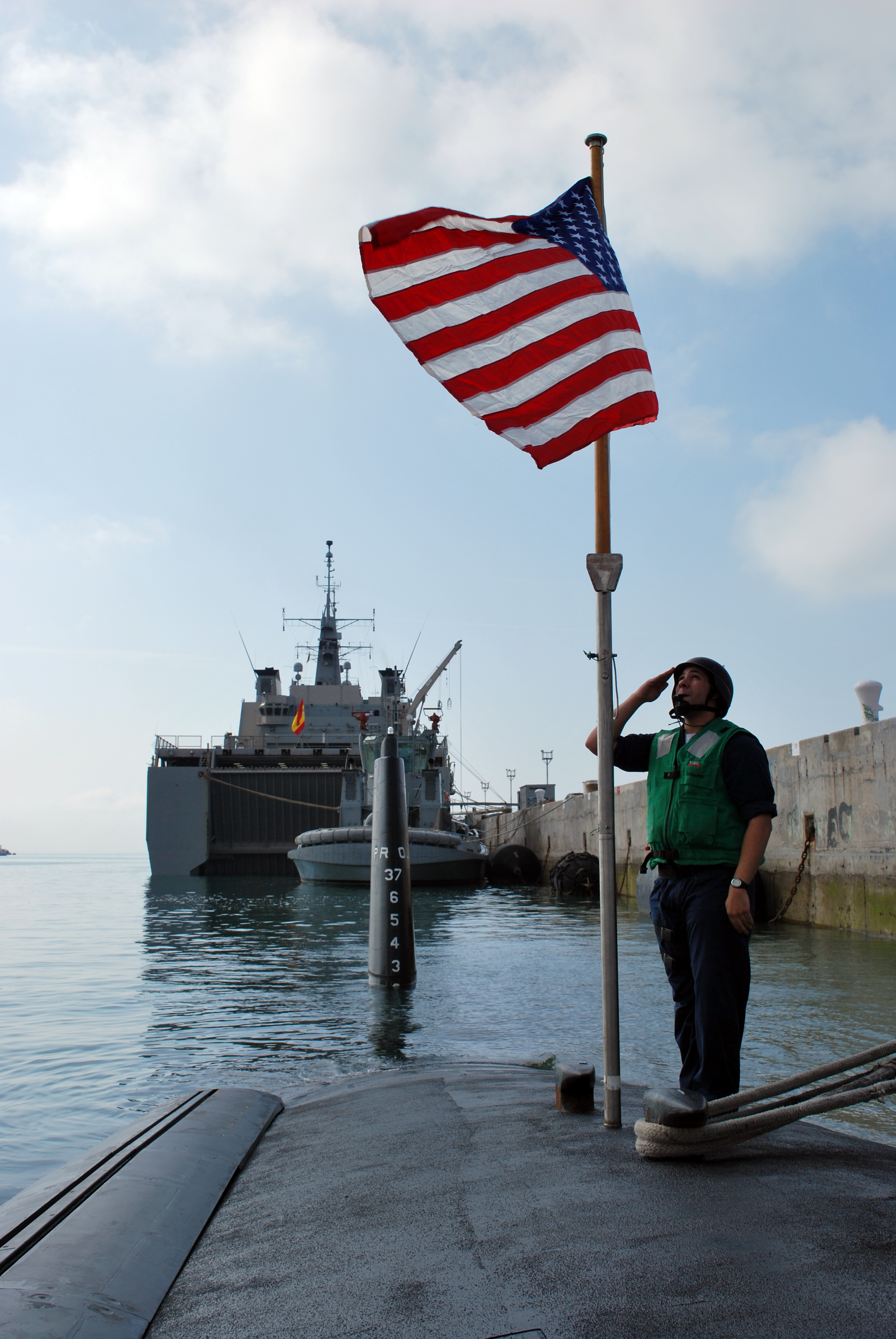 ROTA, Spain (May 10, 2009) Storekeeper 2nd Class Giovanni Perez shifts colors aboard USS New Hampshire (SSN 778) after mooring in Rota, Spain. New Hampshire is deploying in support of operations in the U.S. European Command area or responsibility. (U.S. Navy photo by Sonar Technician Submarine First Class Aaron Skellenger/Released)